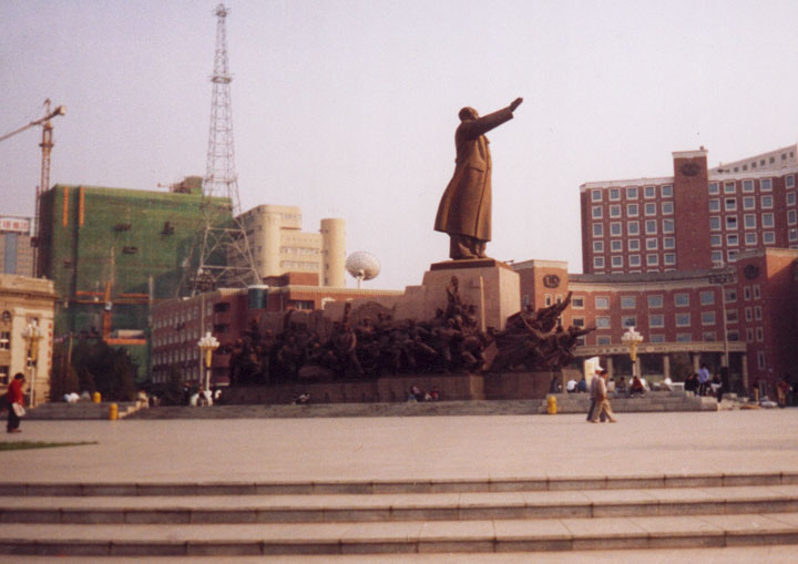 Large statue of Chairman Mao in Shenyang city, Liaoning province, China.